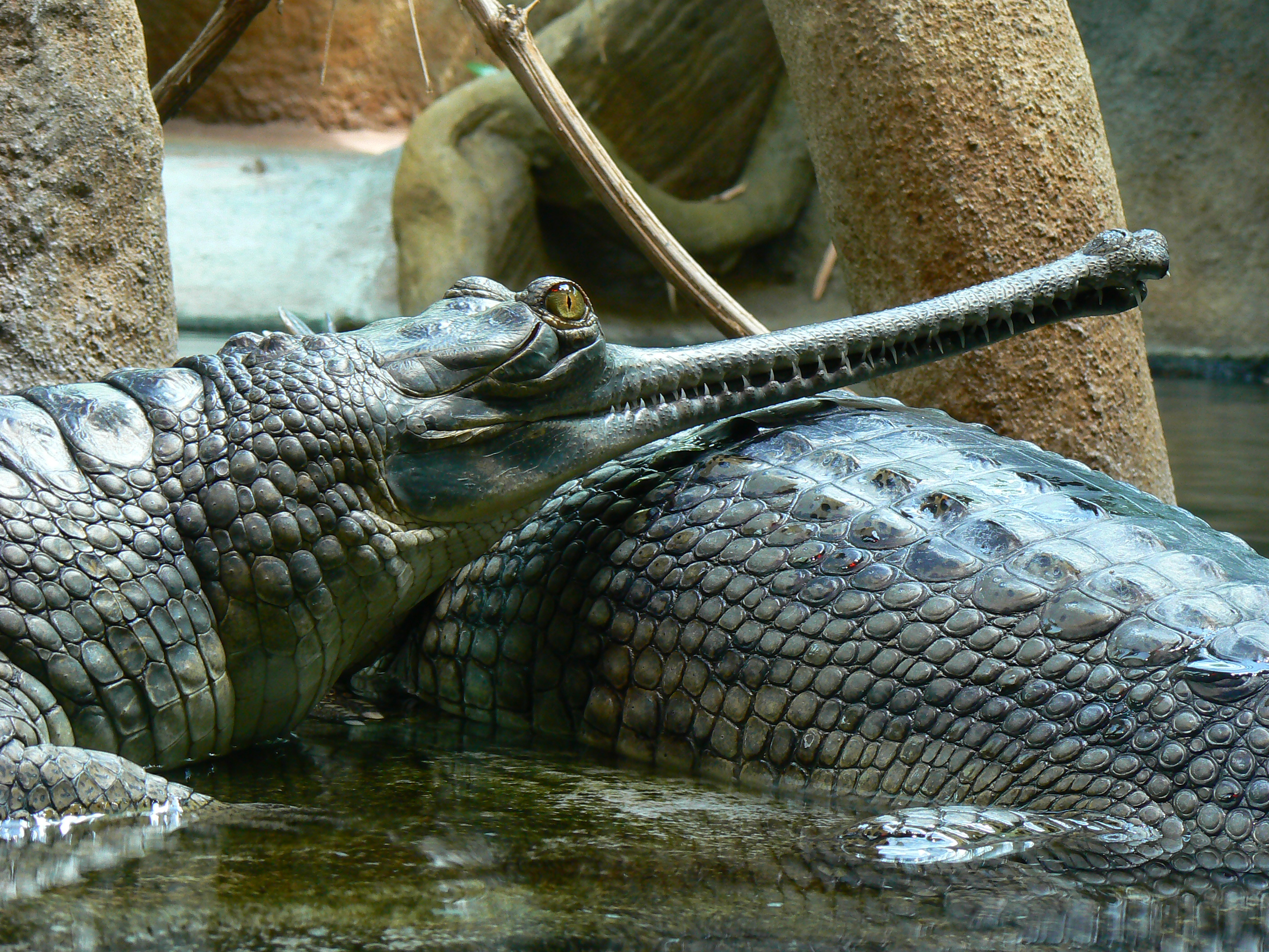 Gavials in Prague zoo, Czech Republic